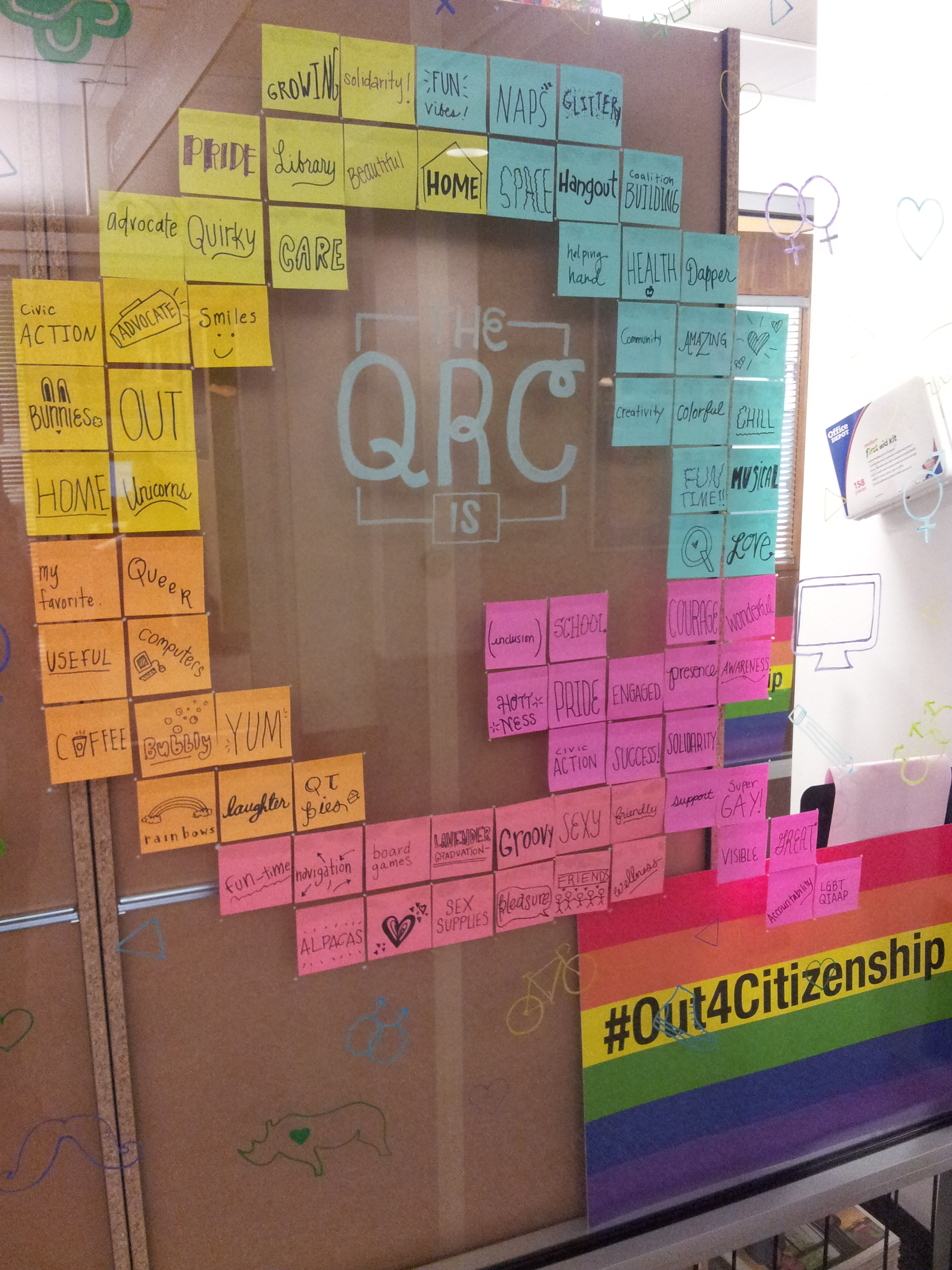 Queer Resource Center, PSU (2014)